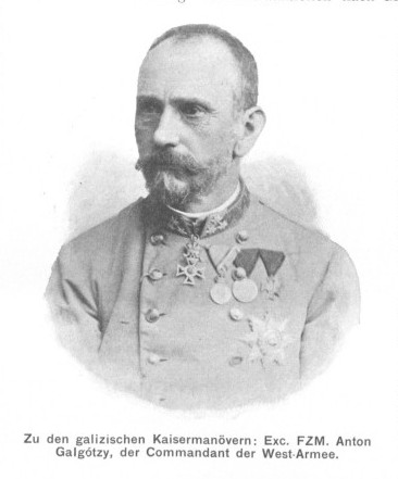 Portrait of Anton Galgótzy (1837-1929), Austrian general.